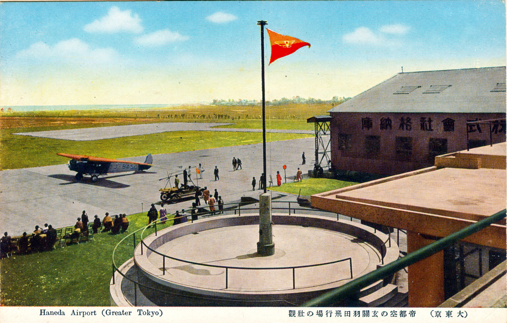 Haneda Air Field in early days